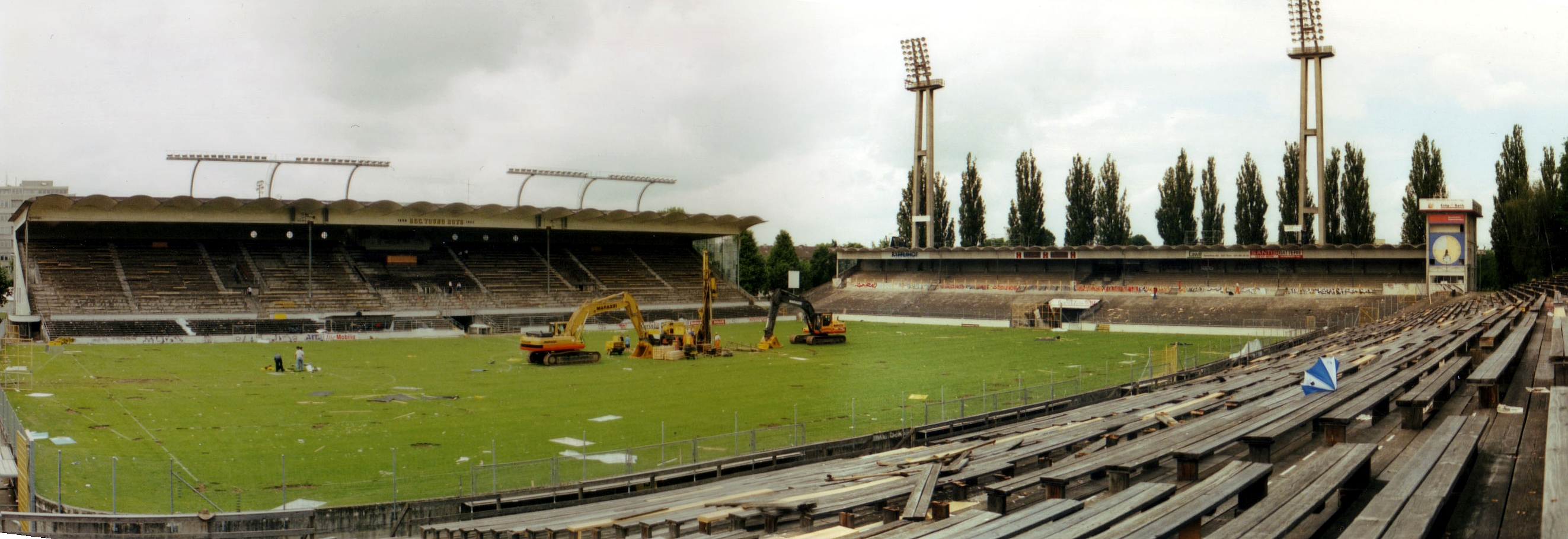 The demolition of the Wankdorf Stadium in Berne, Switzerland. Note: Composed image from two detailed below